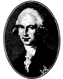 Johan Gabriel Oxenstierna swedish politician and poet